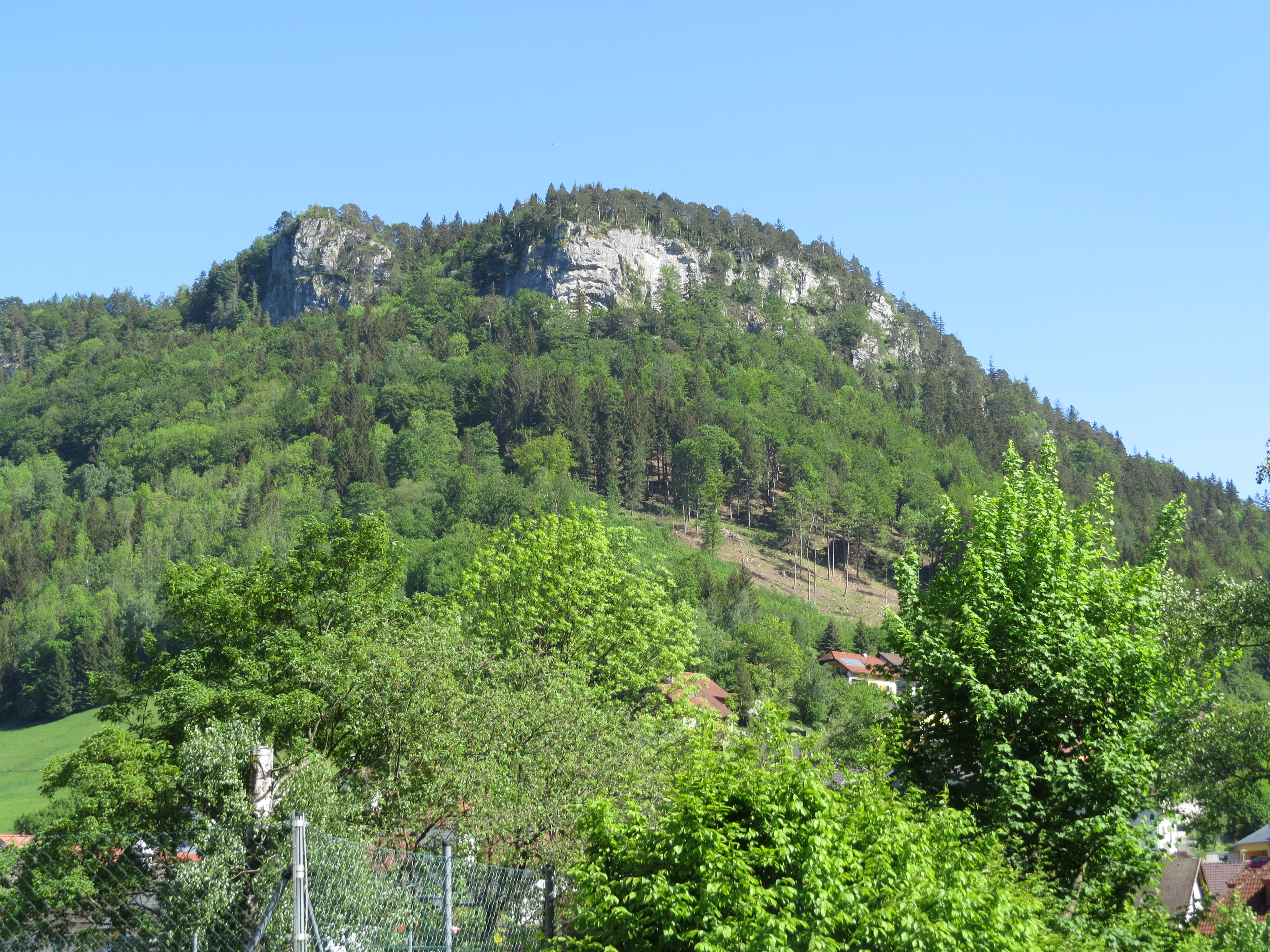 Falkensteinmauer in Frankenfels, Austria